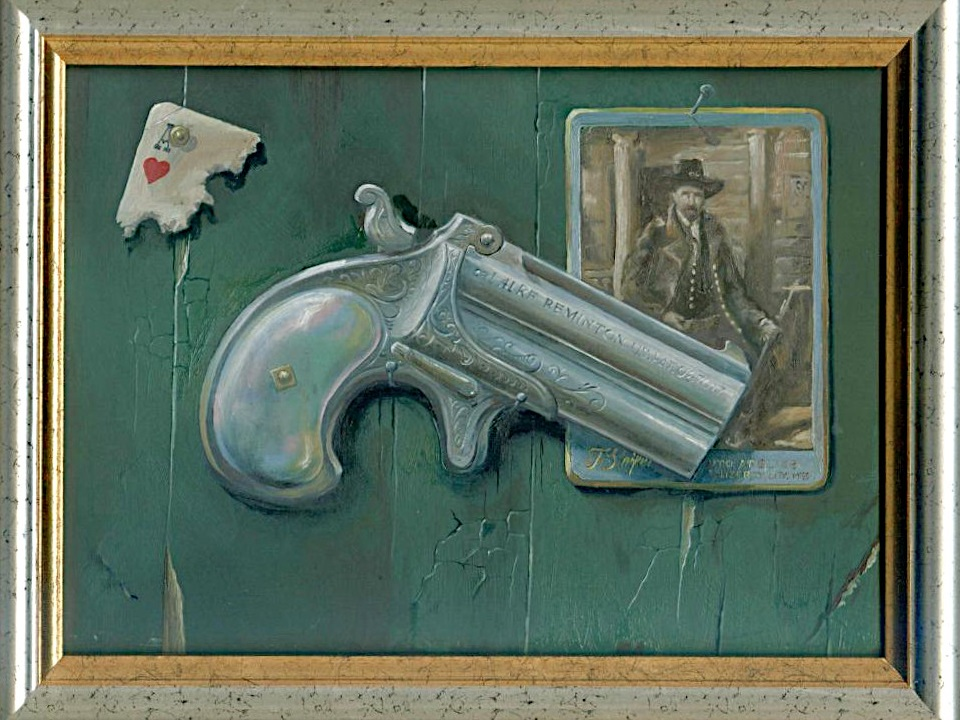 Derringer and Jessi James, Oil picture by T.Steifer